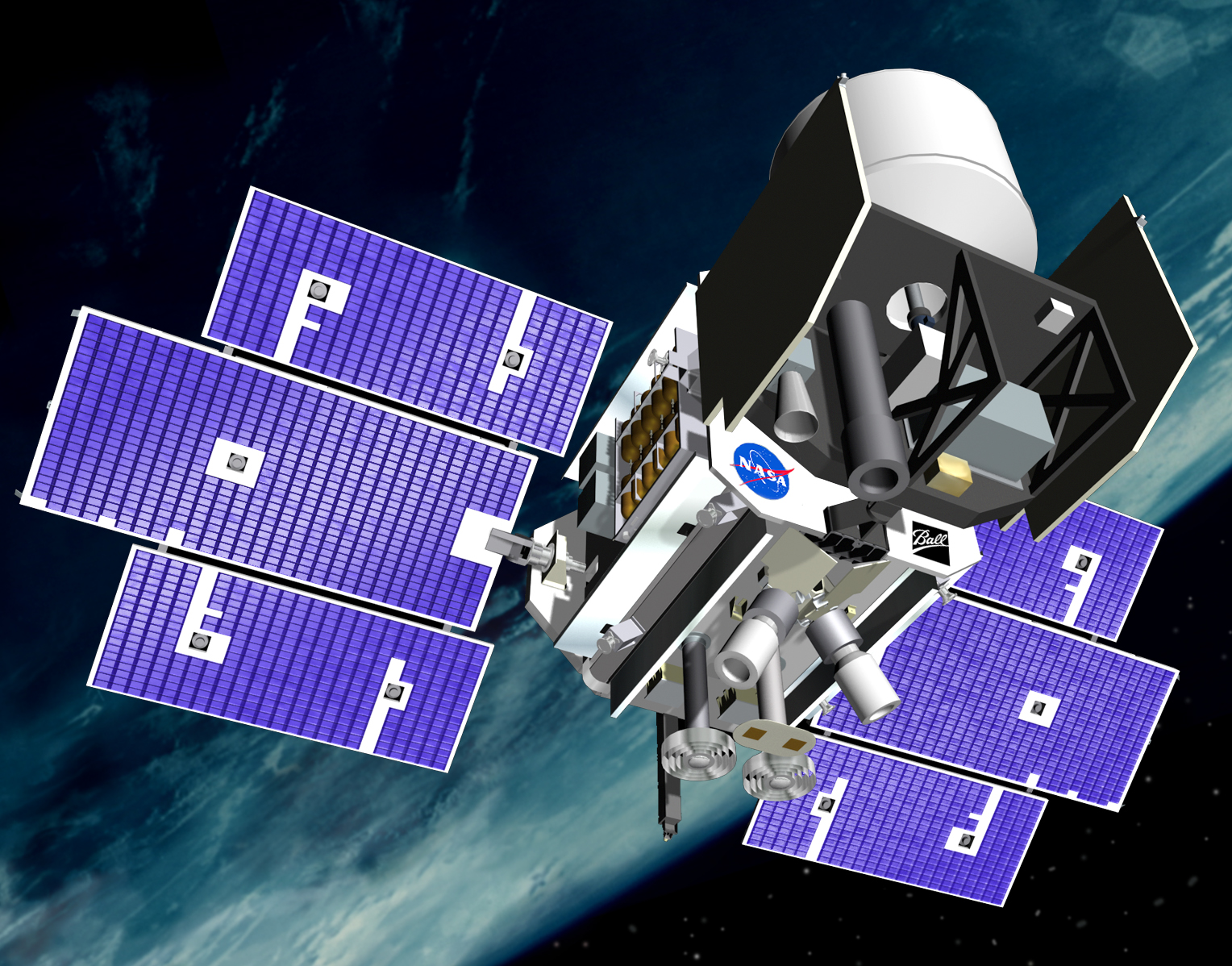 Artist's impression of ICESat in orbit